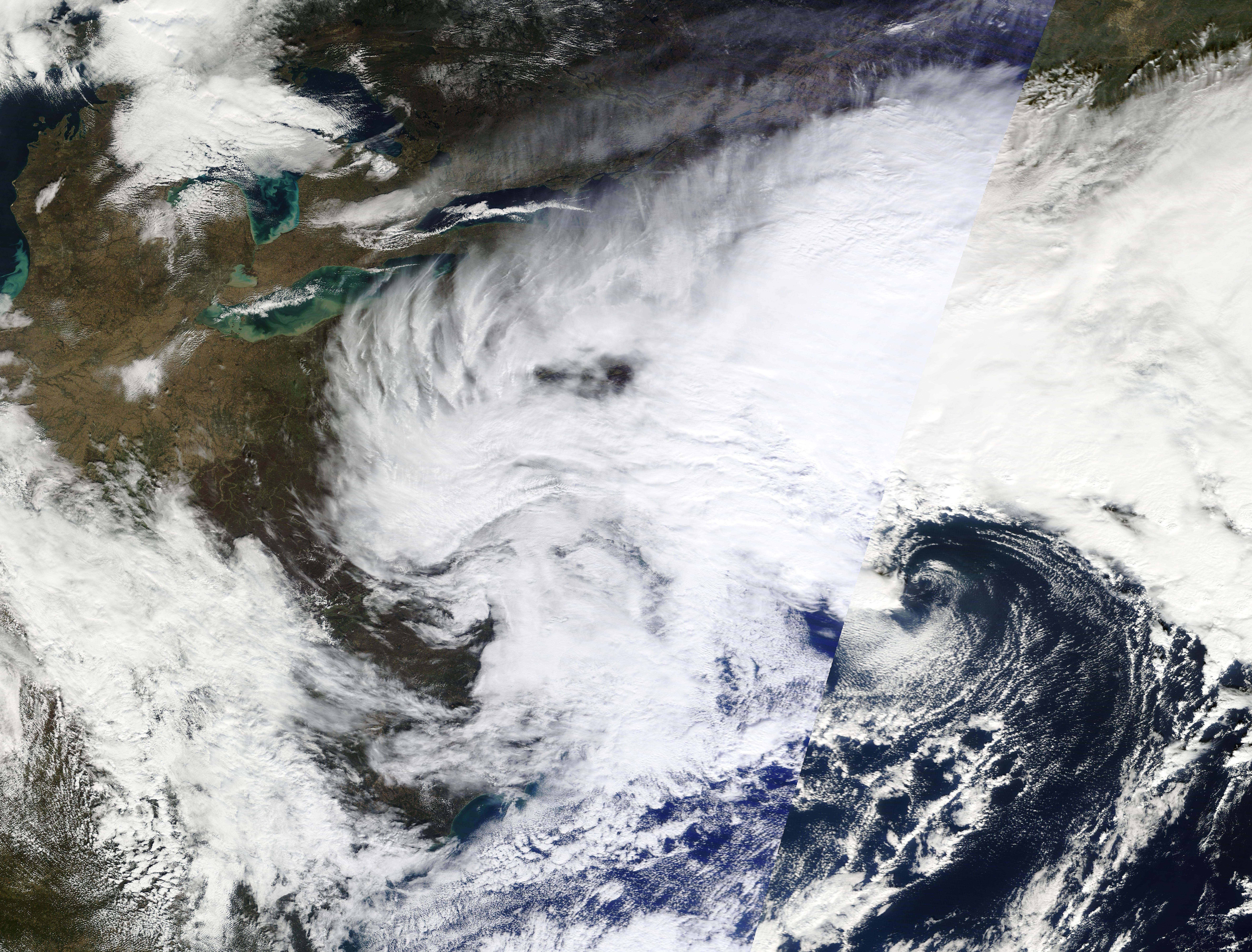 Winter Storm Athena on November 7, 2012